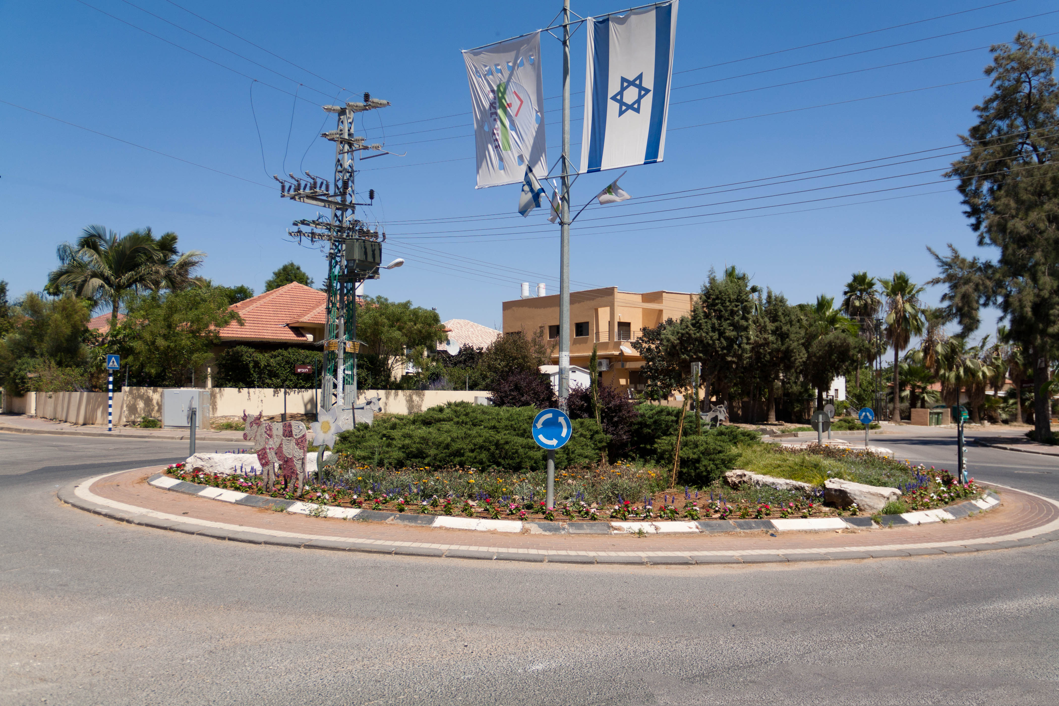 Roundabout in Nitzanei Oz